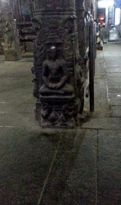 Devotees believe that Nagaraja Temple was earlier a Jain temple because of the images of Jain Tirthankaras, Mahavira and Parswanatha on the pillars of the temple.